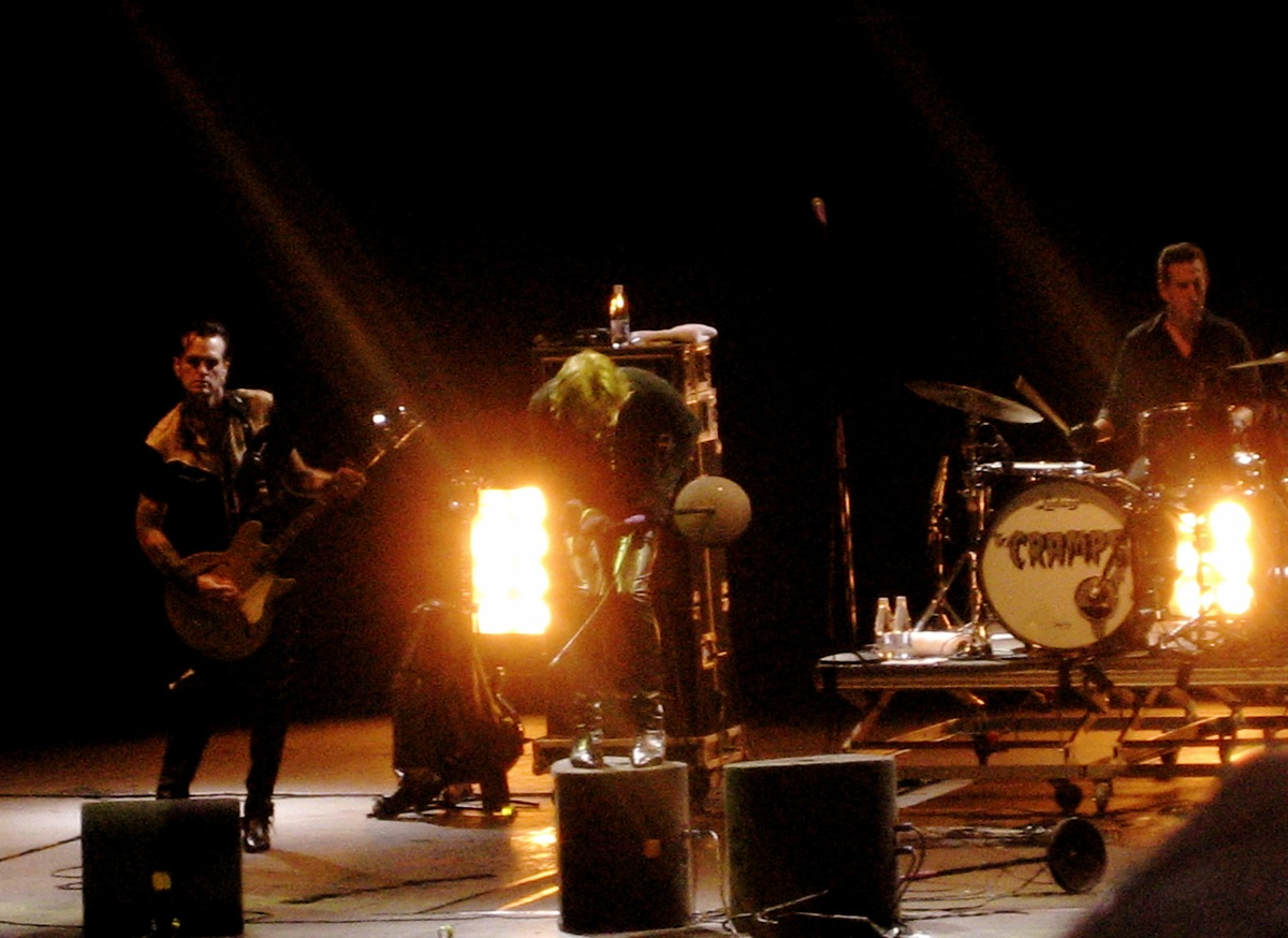 Lux Interior of The Cramps